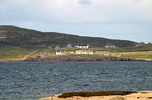 Golaisland